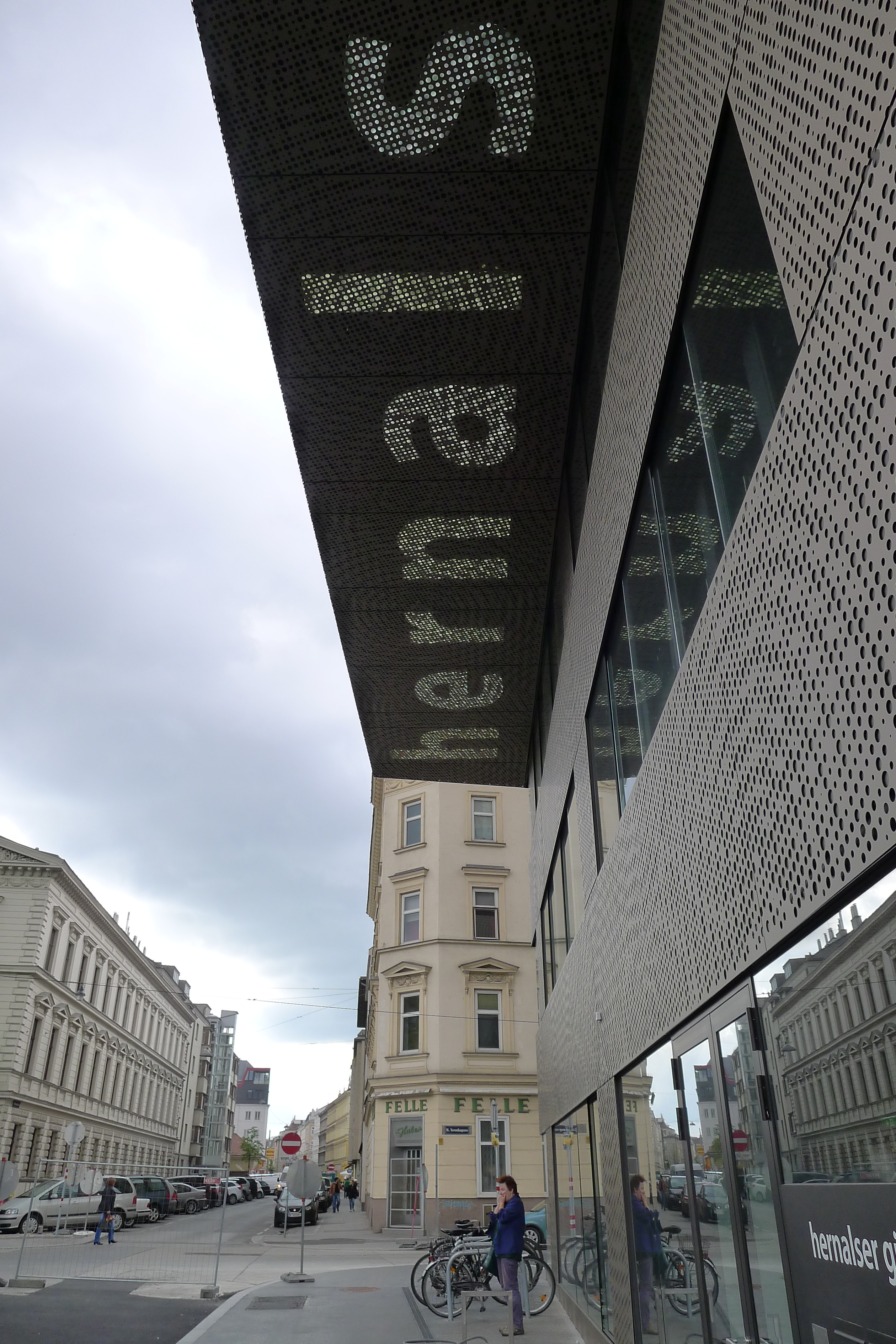 View across Veronikagasse toward Friedmanngasse.